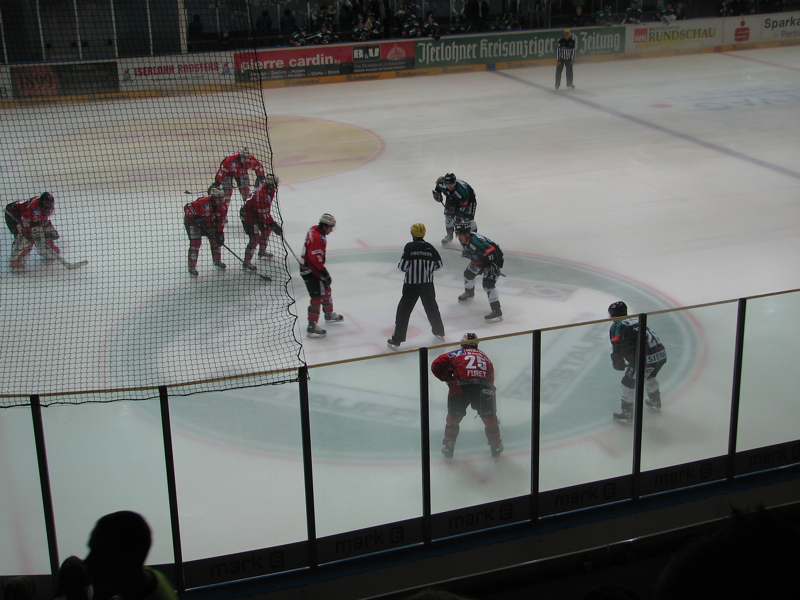 Test game 2006: Iserlohn Roosters against Moskitos Essen